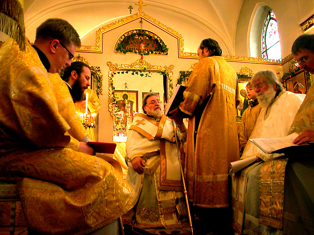 Liturgy of St James. Russian Orthodox Church in Duesseldorf. The bishop (center), surrounded by his clergy, sits in the center of the nave for the begnning of the Divine Liturgy.